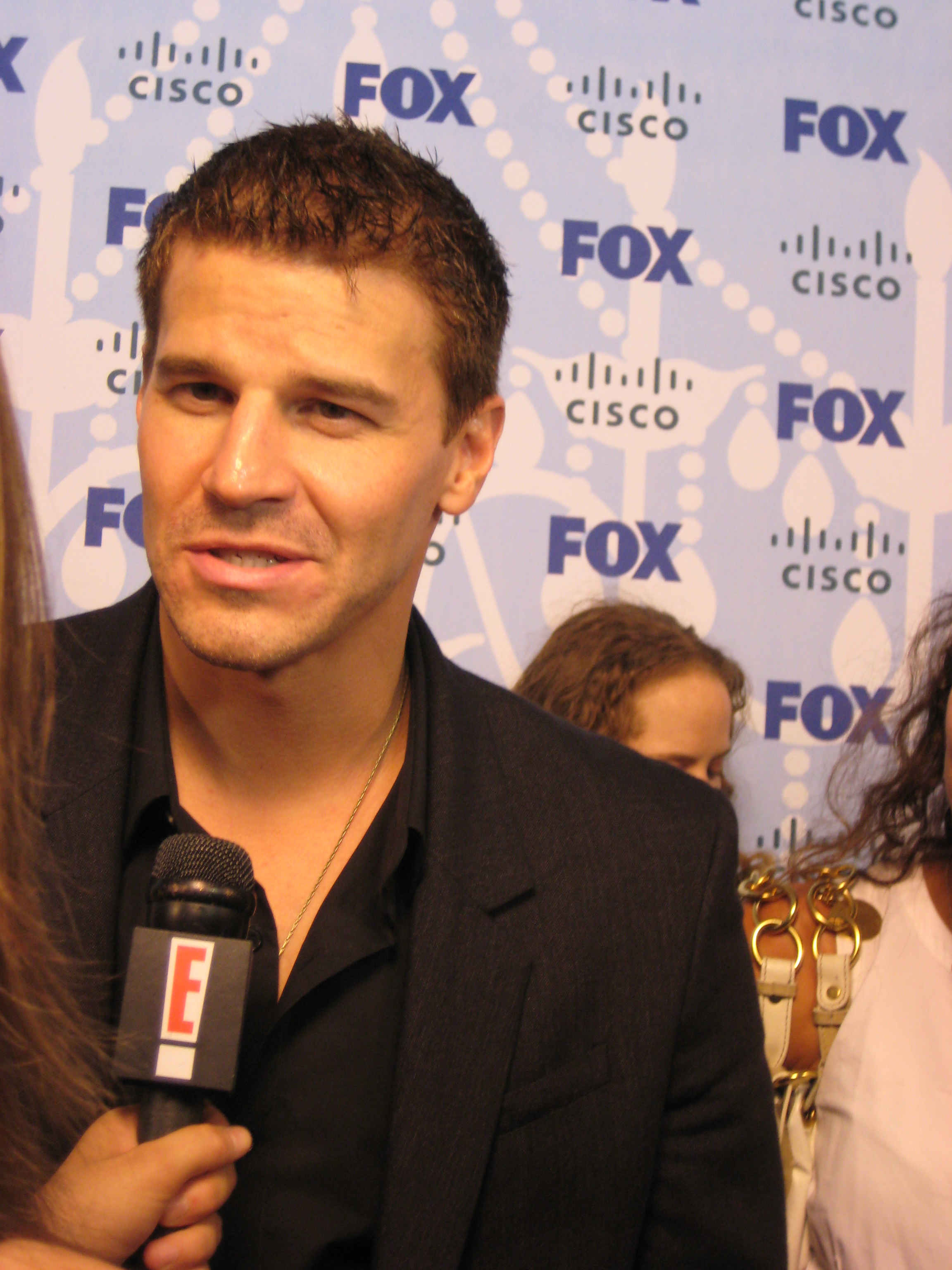 Actor David Boreanaz In fox fall party 2008